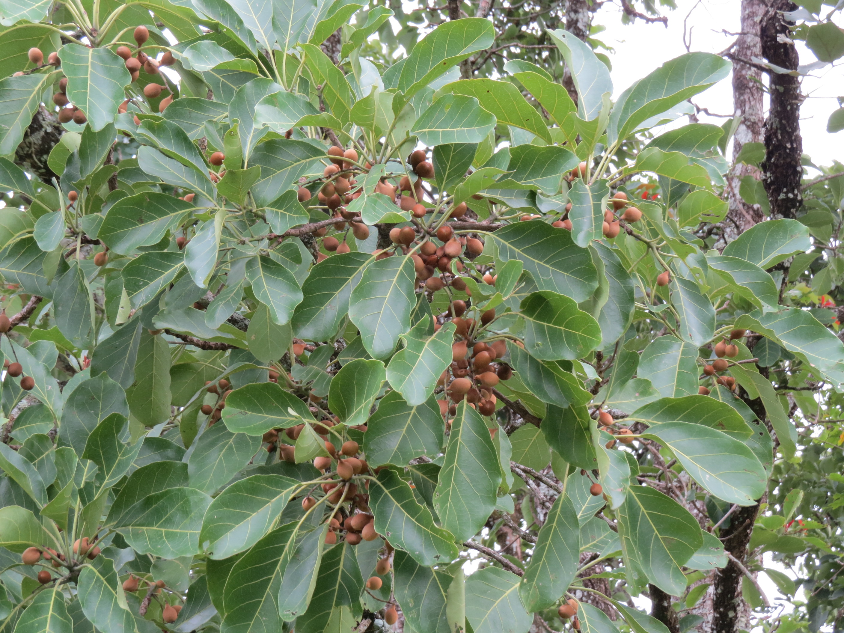 Terminalia bellerica, an important forage tree for langur and ungulates, in India